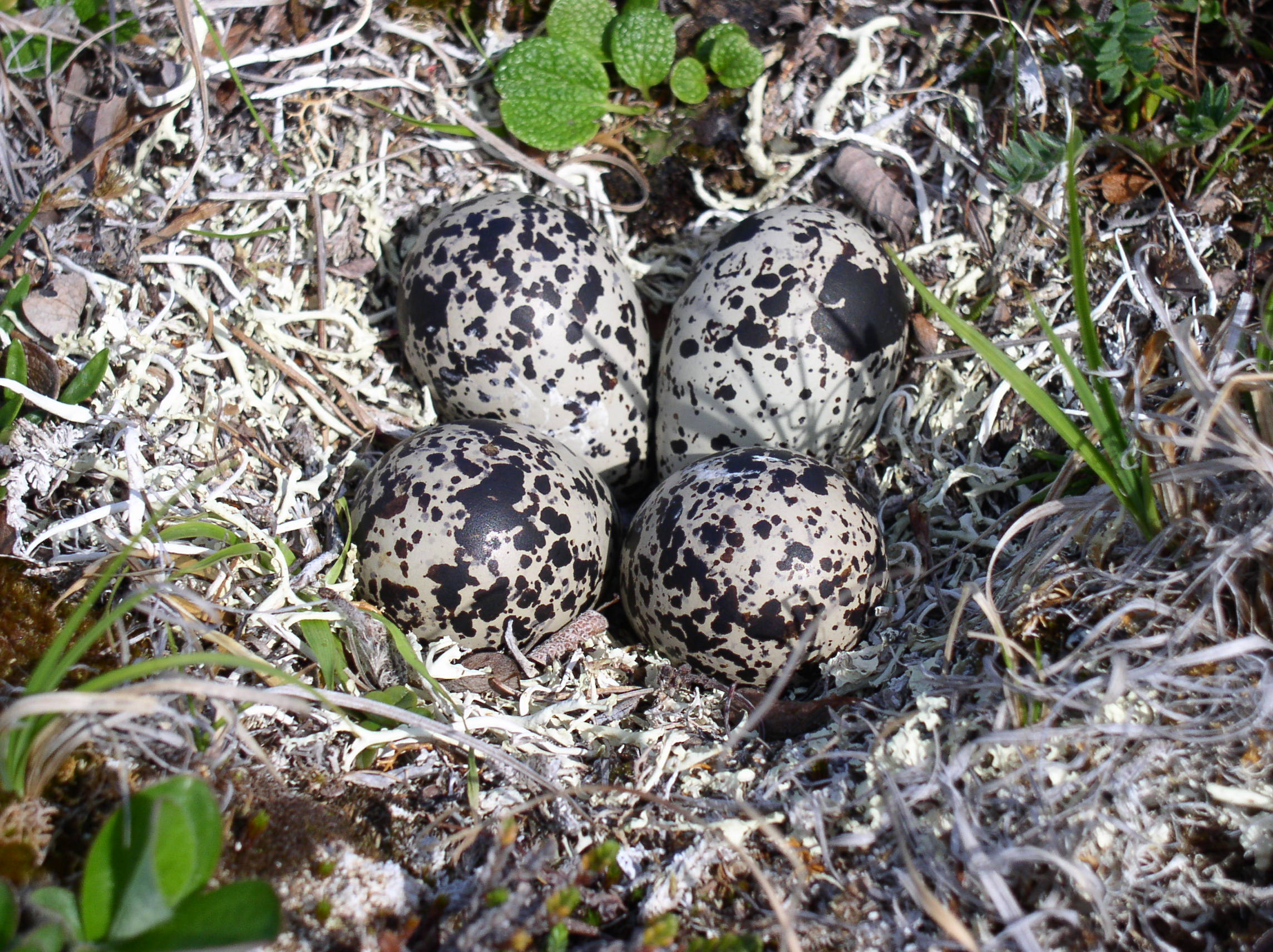 Eggs and nest of Pluvialis dominica (American Golden-Plover), near Coffee Dome, Seward Peninsula (north of Nome), Alaska